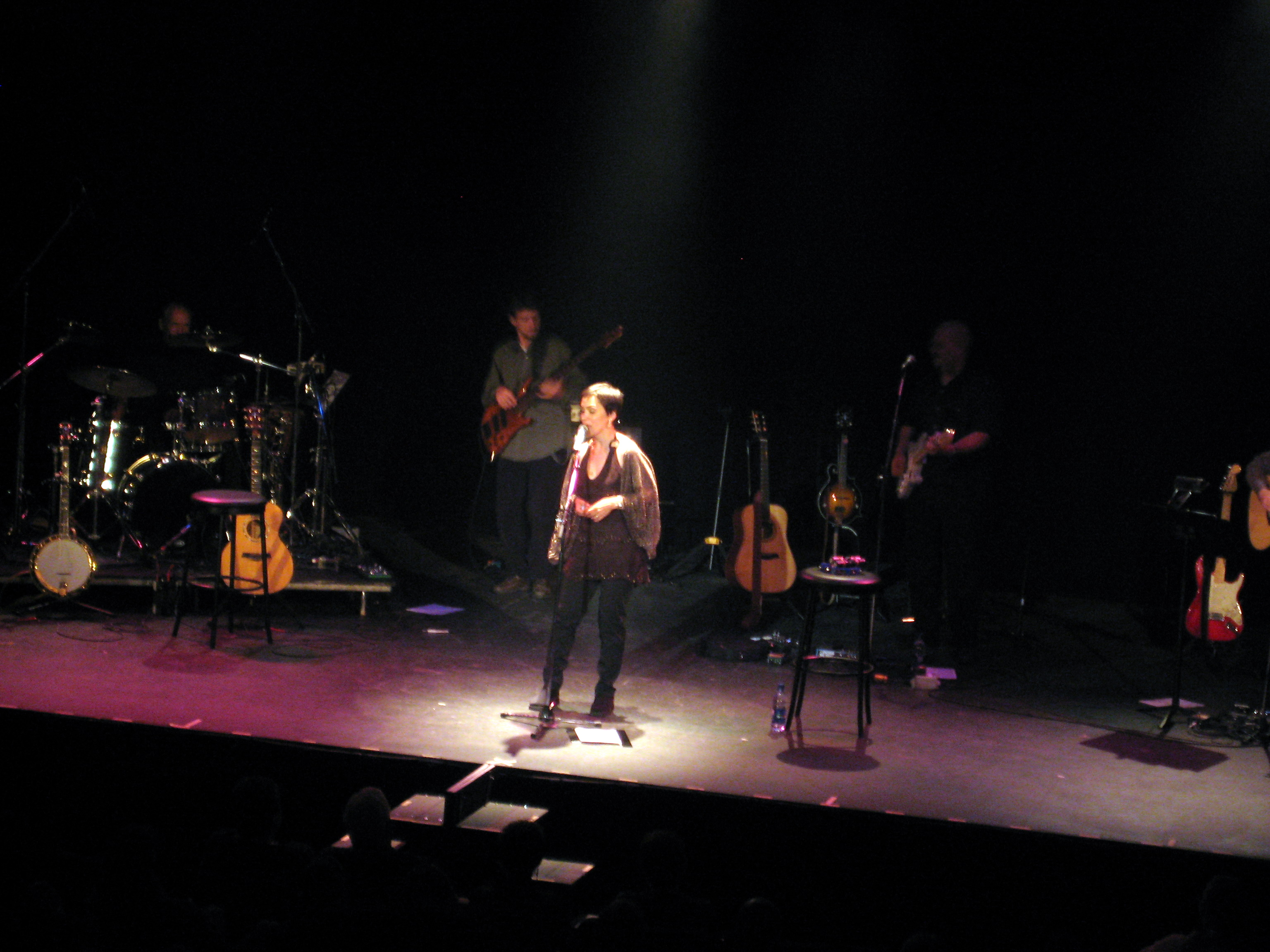 Photo of Susan Aglukark at the Prairie Arts Festival in Moose Jaw, Saskatchewan. (June 27, 2007)